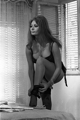 Sophia Loren in Yesterday, today and tomorrow